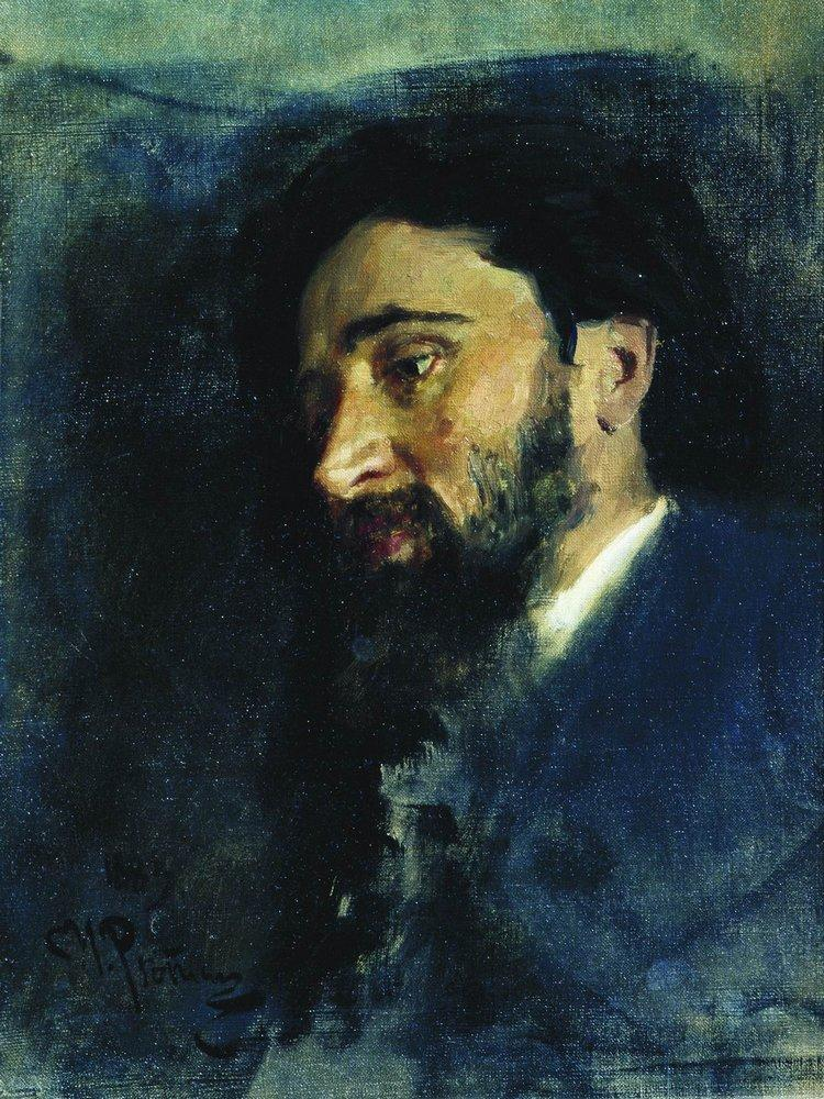 Study for the picture Ivan the Terrible and His Son Ivan.